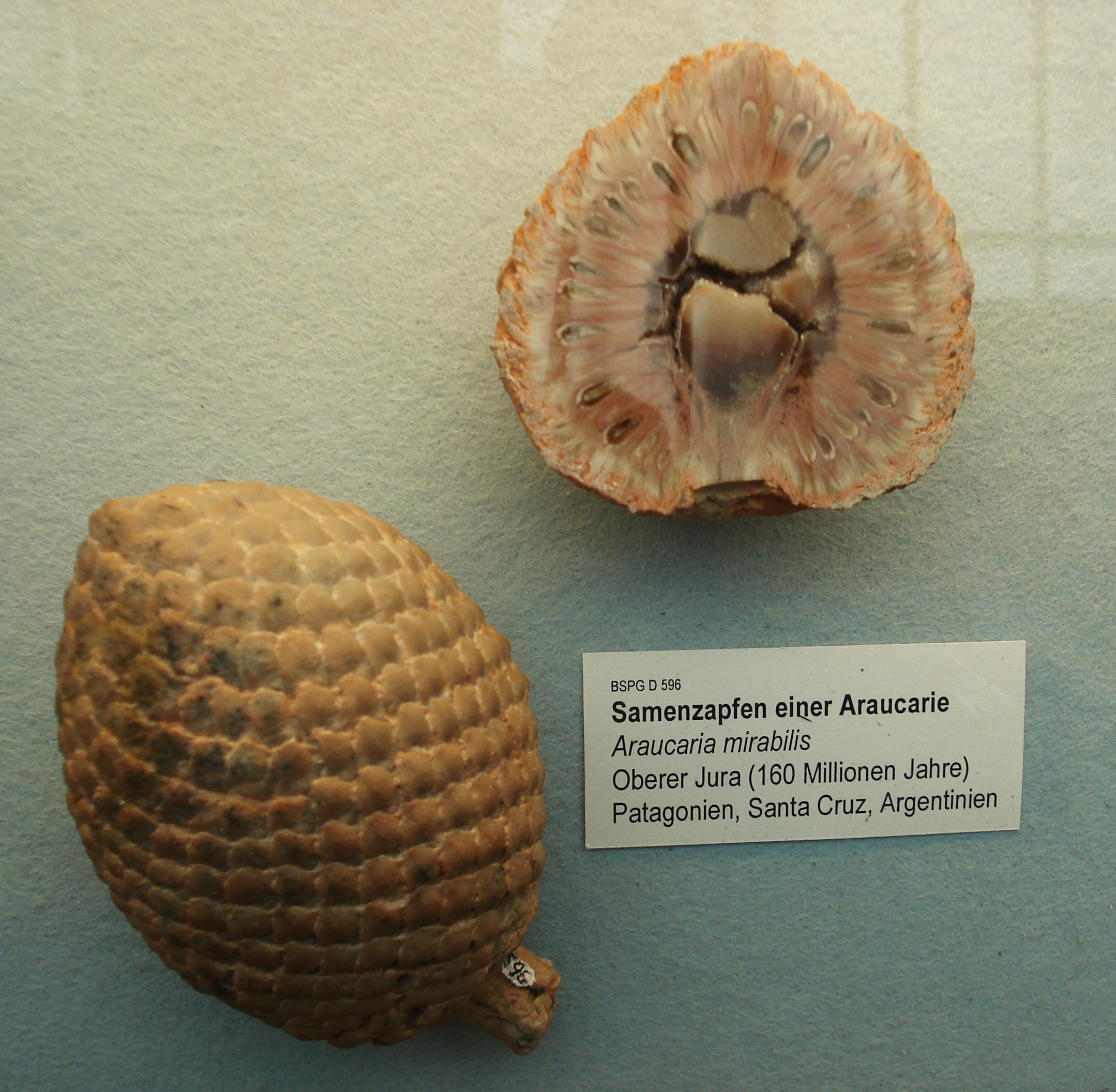 fossil of aplax